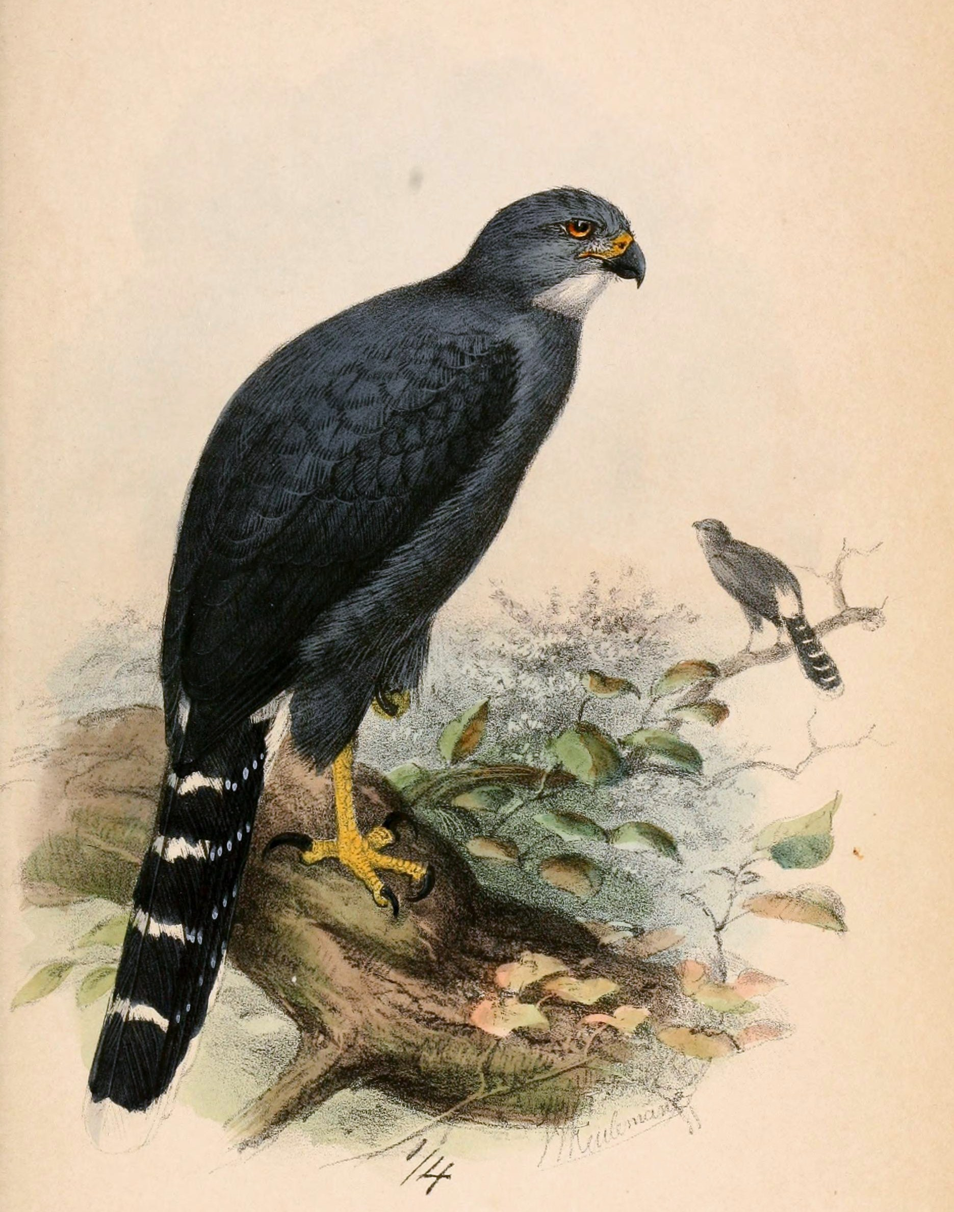 « Astur macrurus » = Urotriorchis macrourus (Long-tailed Hawk)